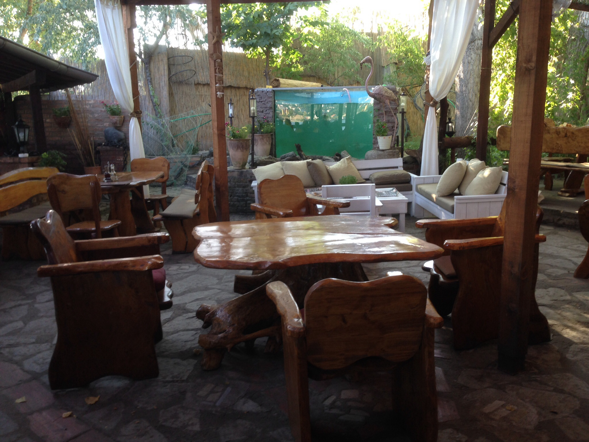 Exterior, Tavern at Goca and Renato, Belgrade, Serbia.